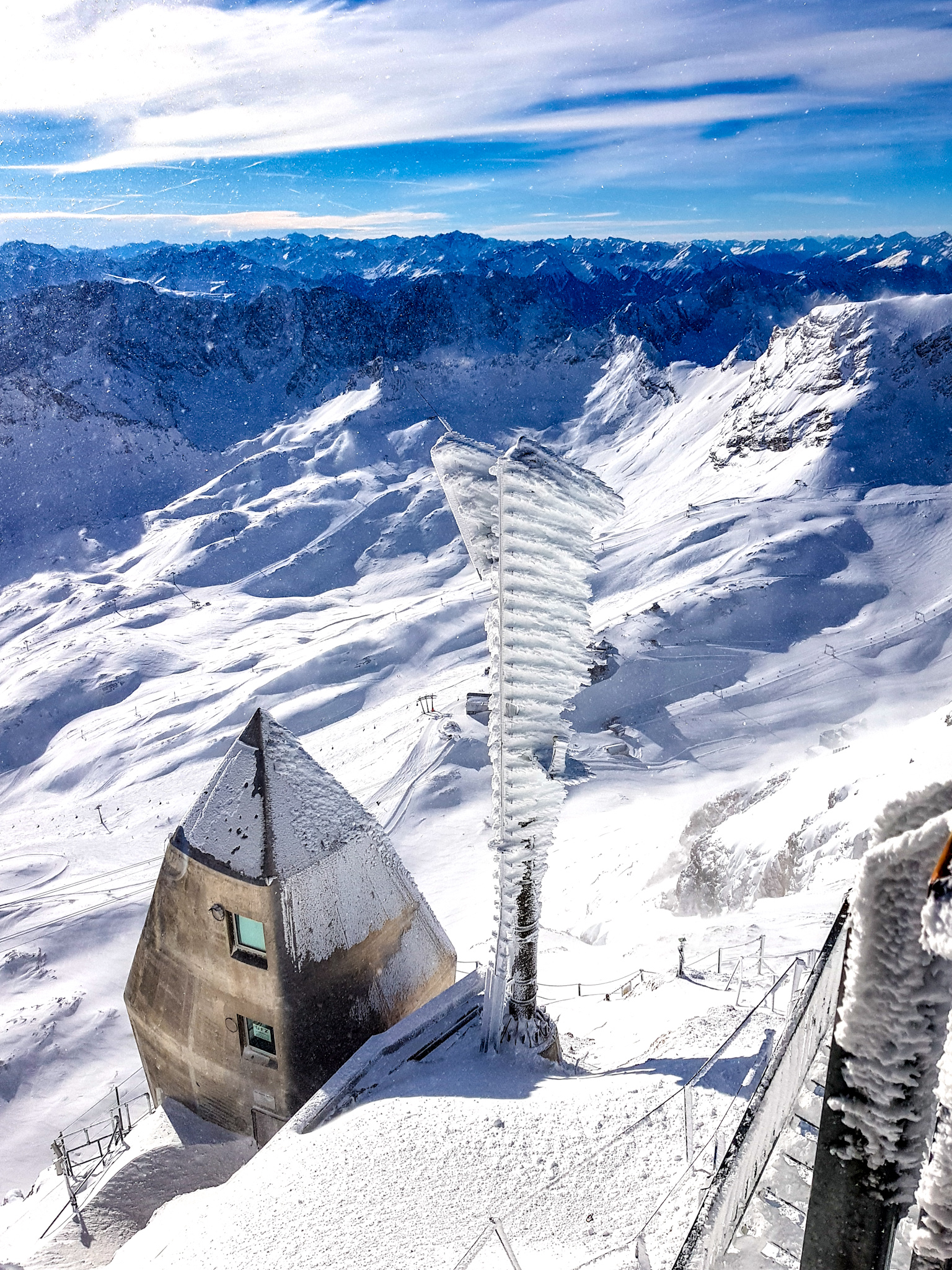 Zugspitze in winter (January 2019), a view down to Zugspitzplatt and the mountains in the South.